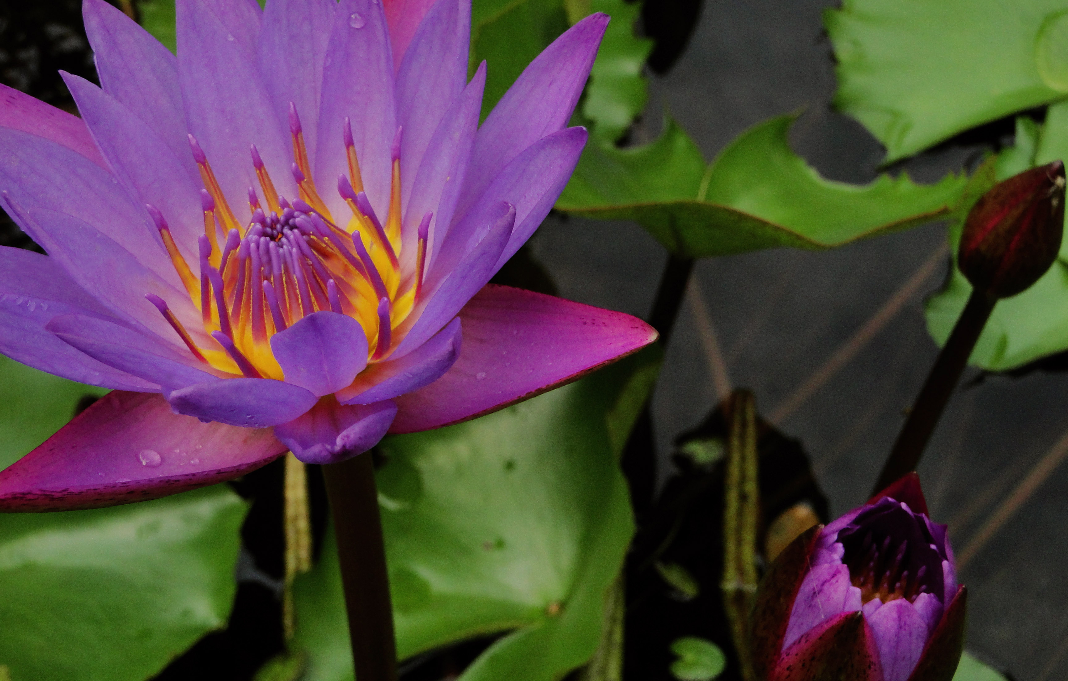 Blue Lotus also known as blue water Lilly is found in almost every part of the world. People used to plant these water beauties in their garden as a catalyst to impress the guest.